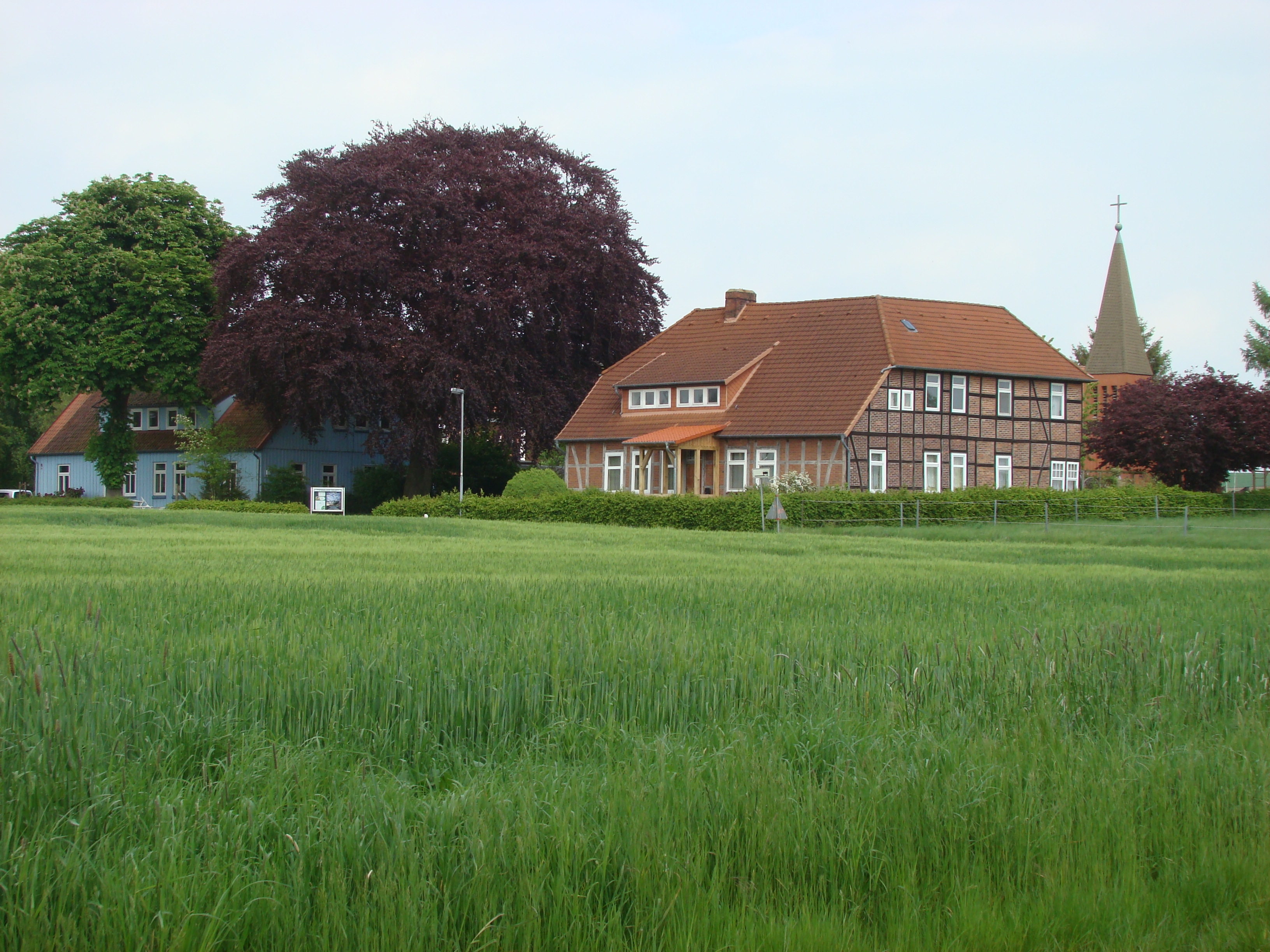 Lutheran Church Mission, vicarage and St. John's Church, Bleckmar, Lower Saxony, Germany.